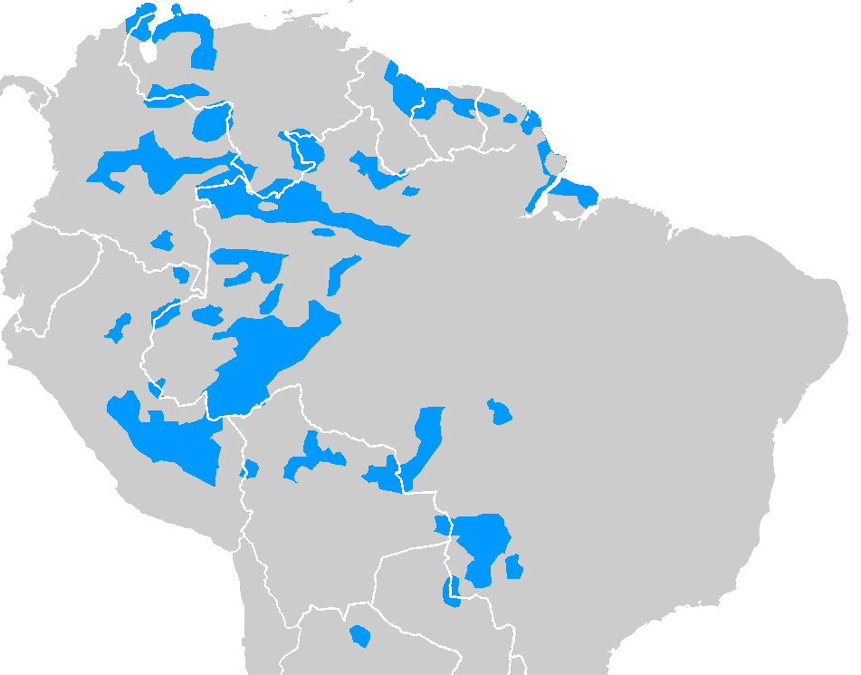 Arawak languages, sources: Alexandra Y. Aikhenvald "The Arawak Languages" in The Amazonian Languages, Dixon & Alexandra Y. Aikhenvald (eds.), Cambridge: Cambridge University Press, 1999. p. 65-106. Nicholas Ostler (2005): Empires of the World: A Language History of the World, p. 362